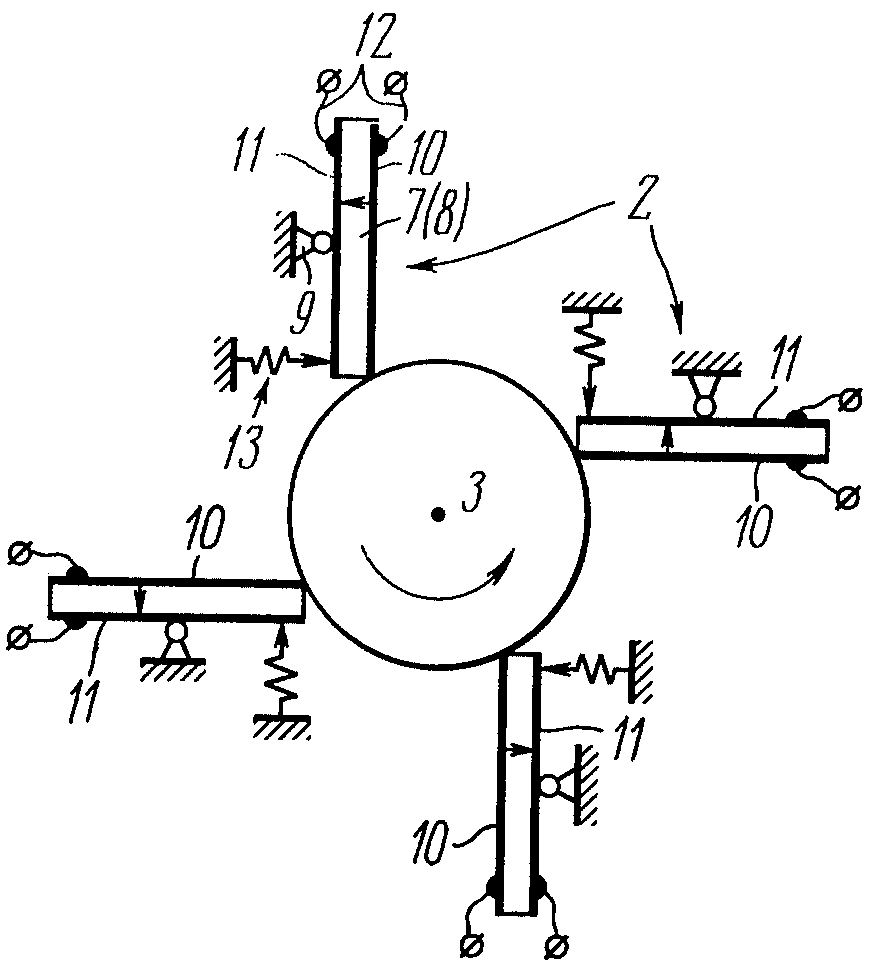 Operational principle of a piezoelectric standing wave motor